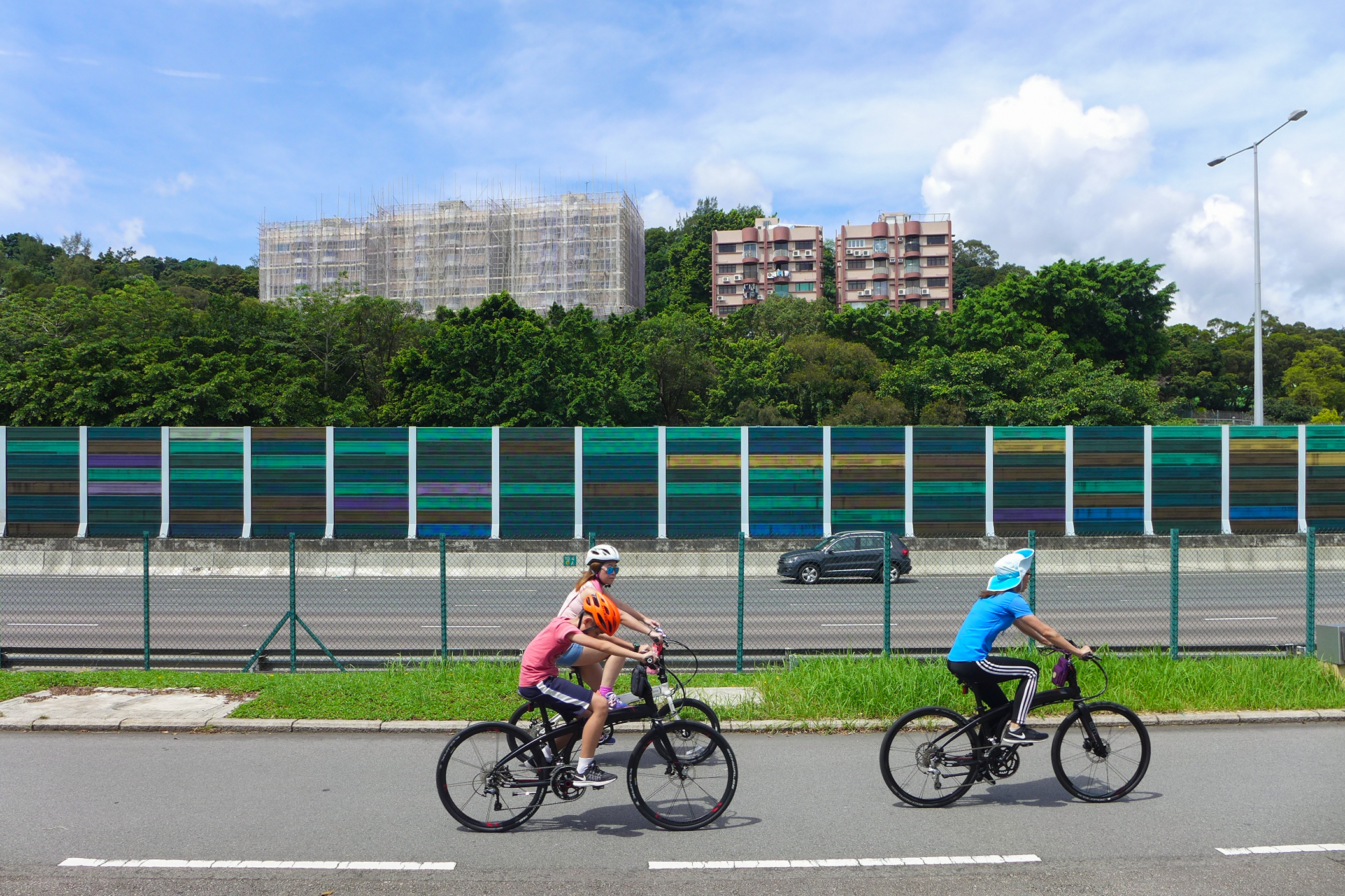 Tolo Highway noise barrier